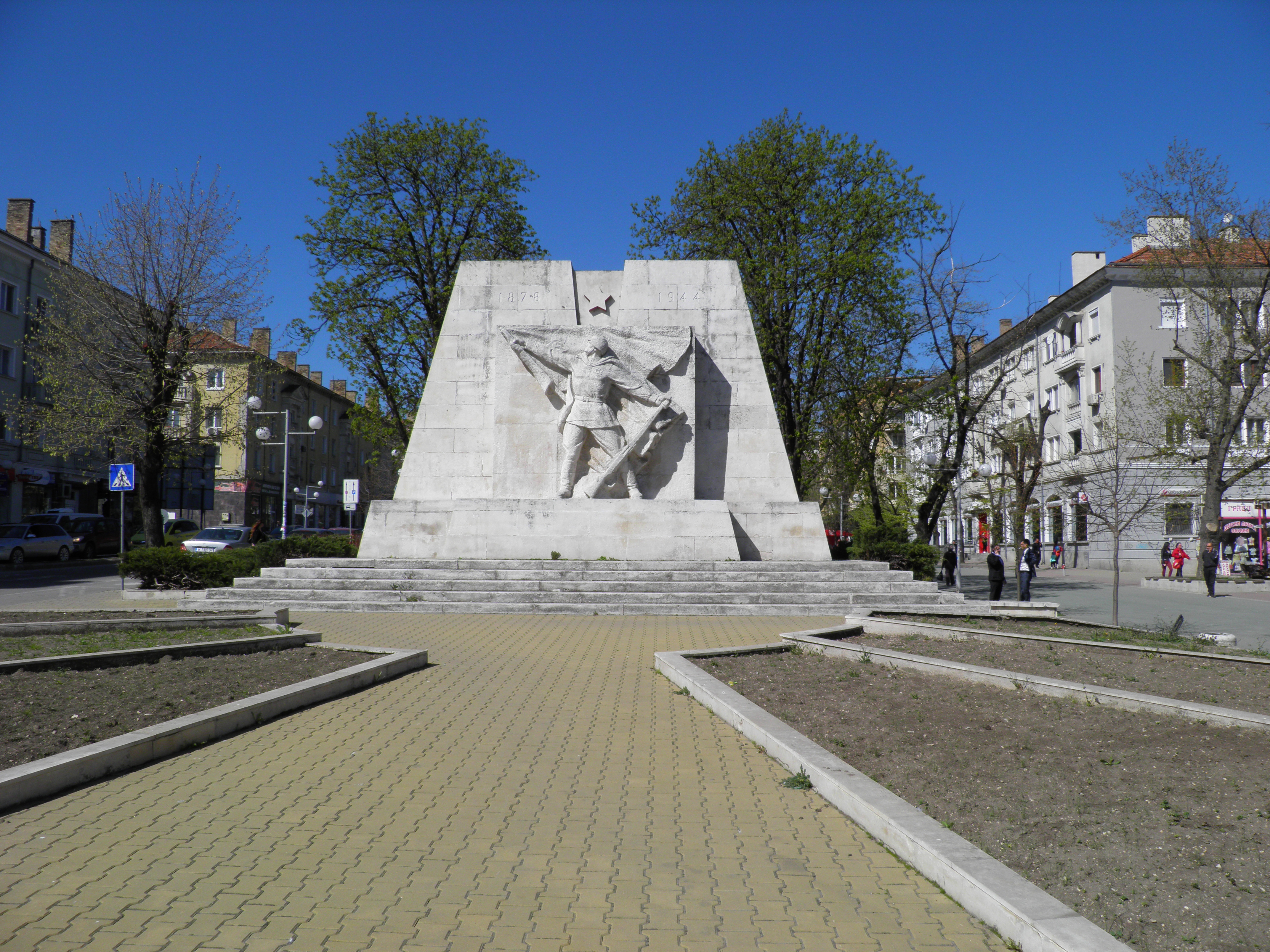 Monument in Shumen